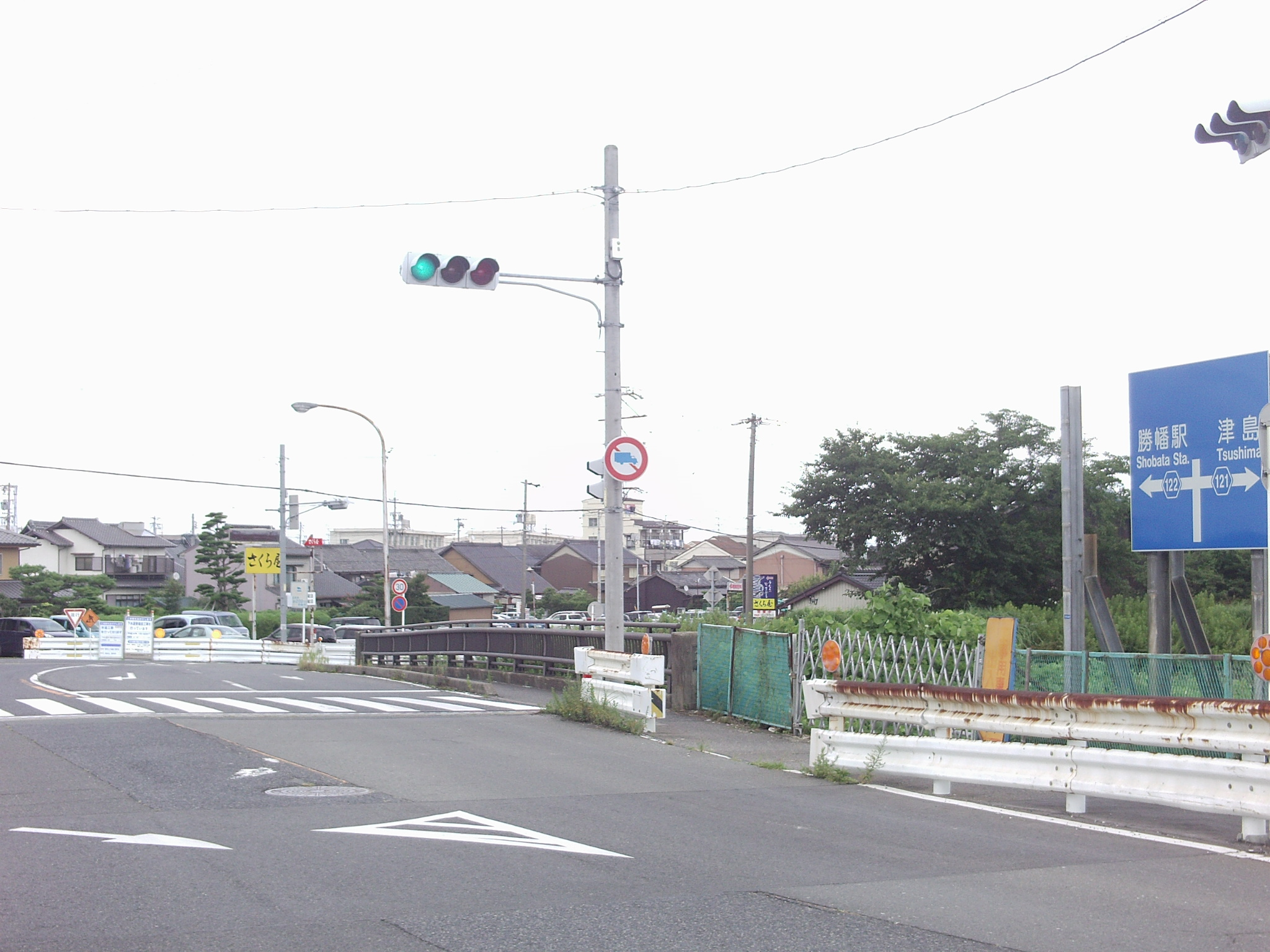 Aichi prefectural road No.122 in Shobatacho, Aisai, Aichi.